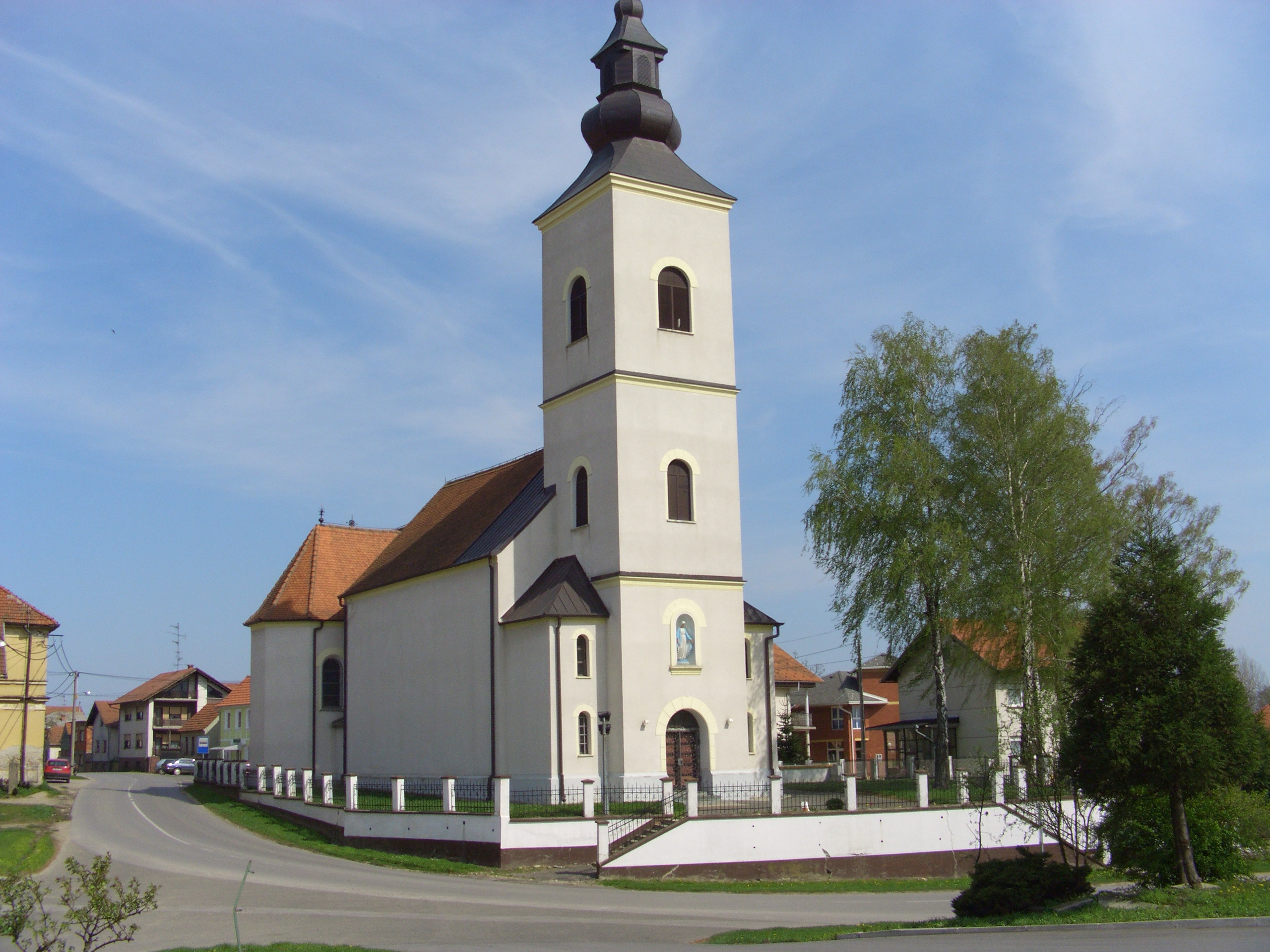 Church in Belica, Croatia.